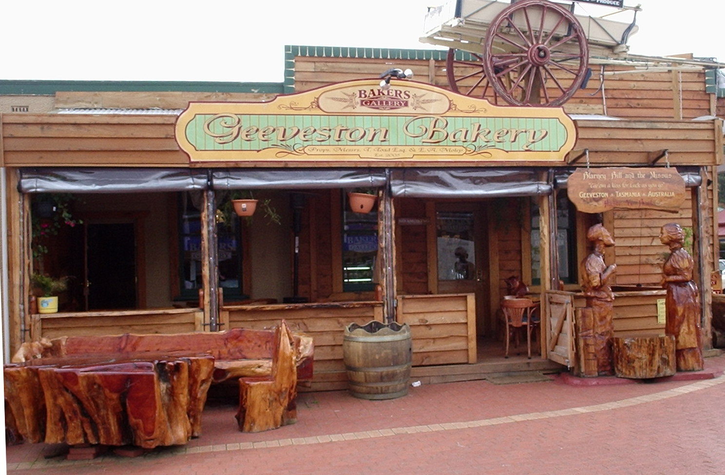 Bakery at Geeveston, Tasmania, Australia Area is well know for timber hence the multiple carvings